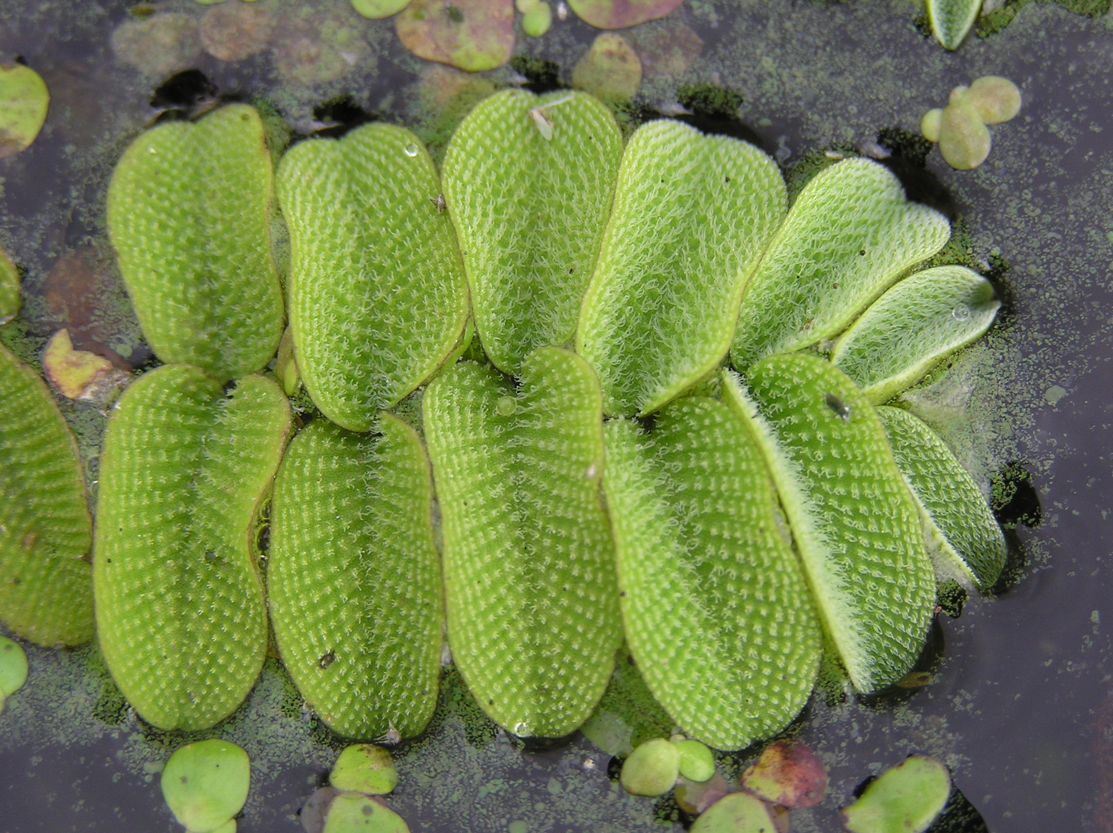 Salvinia natans (L.) All. (Water Fern); habitus. Habitat: а backwater in Volgograd Reservoir (Volga river). Engelssky District, Saratov Oblast, Russia.